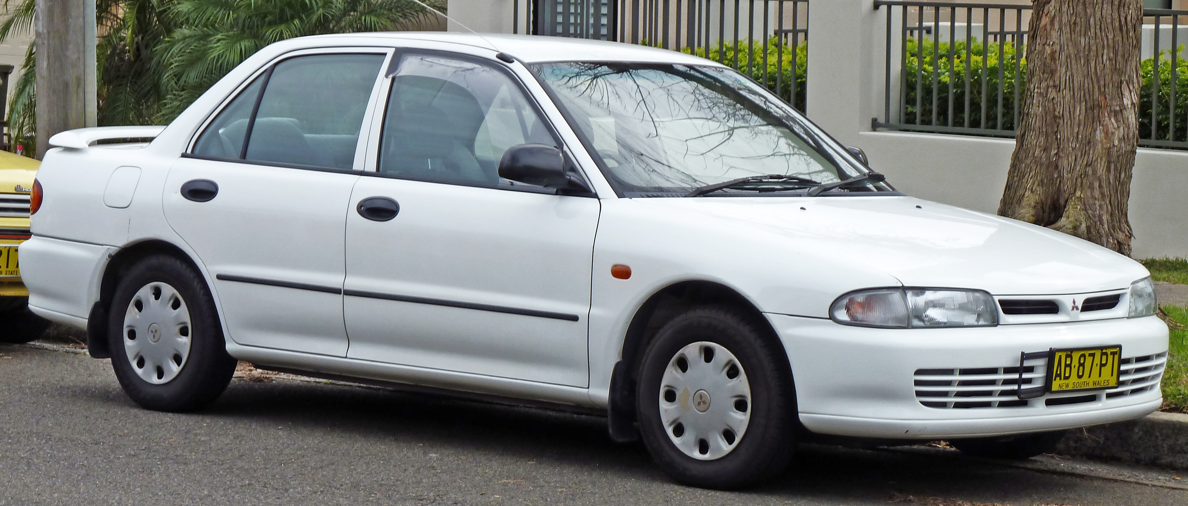 1996 Mitsubishi Lancer (CC) Executive sedan. Photographed in Woolooware, New South Wales, Australia.